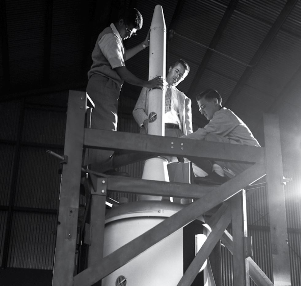 JPL - Explorer 1 is test-mated before launch